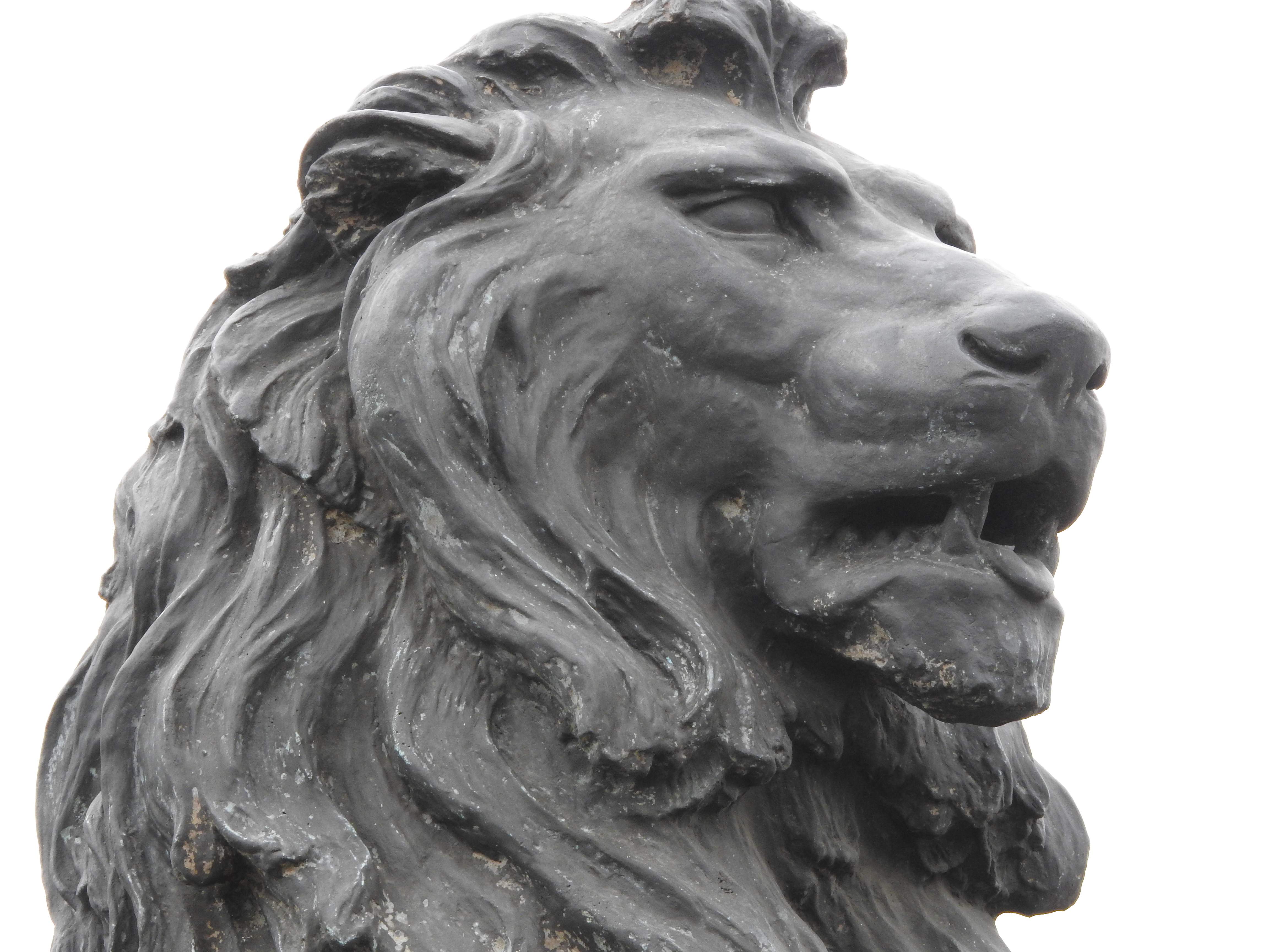 Rochester Bridge Lion